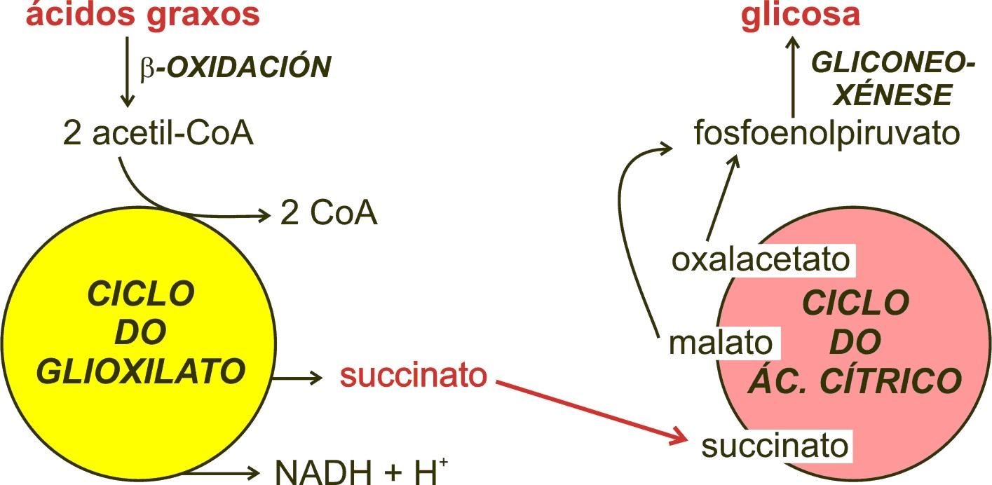 connexion between glyoxylate cyle and citric acid cycle jpg